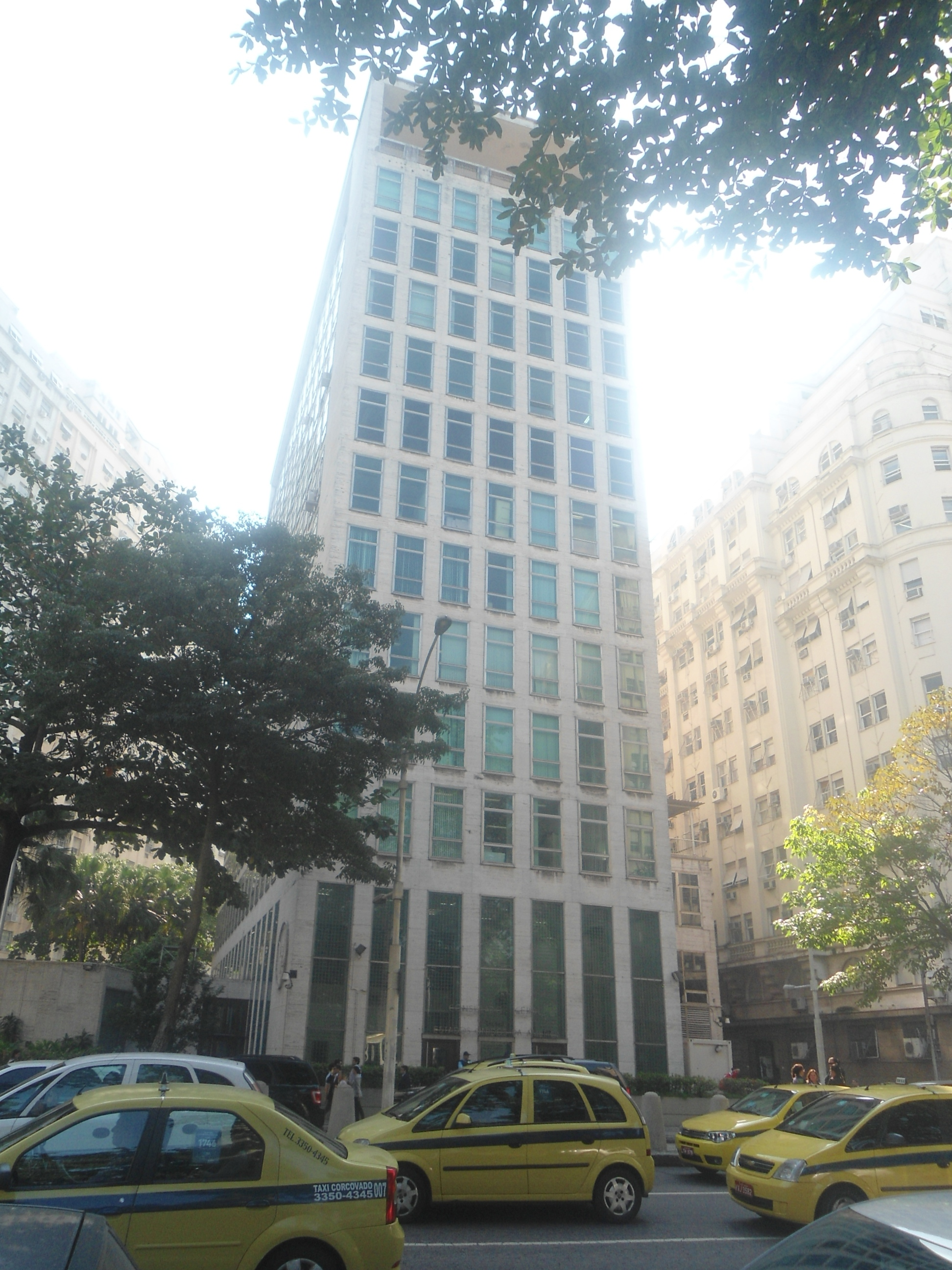 Consulate General of United States of America in Rio de Janeiro, Brazil